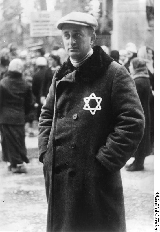 Soviet Union: In the German occupied territories, the Jewish population had to wear the Star of David. Rec. Dec. 1941 2381-42 (Friedrich)